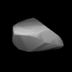 3D convex shape model of 1301 Yvonne, computed using light curve inversion techniques. J. Hanuš, J. Ďurech, M. Brož, B. D. Warner (June 2011). "A study of asteroid pole-latitude distribution based on an extended set of shape models derived by the lightcurve inversion method". Astronomy and Astrophysics 530: A134. ISSN 0004-6361. arXiv